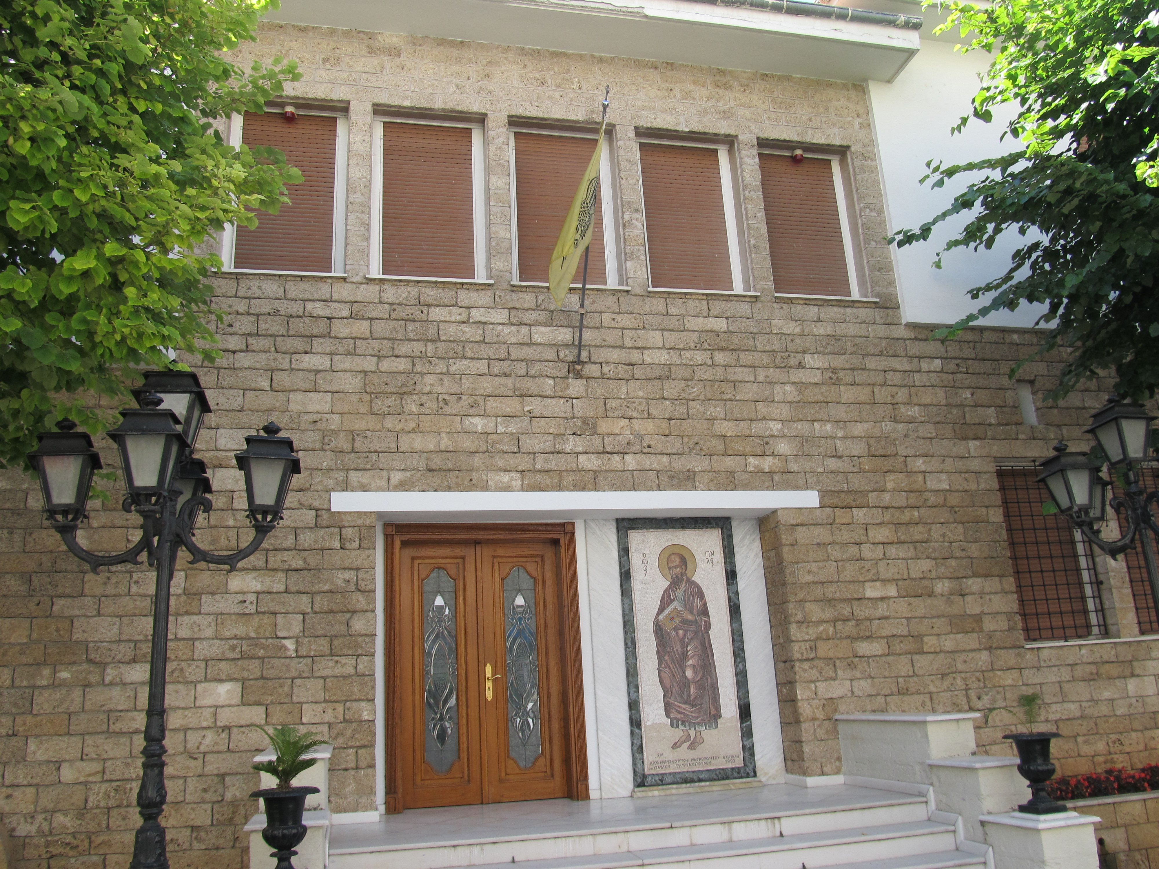 Metropolis of Veria (Ber), Greece